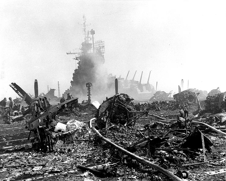 Aircraft wreckage on the flight deck of the U.S. Navy aircraft carrier USS Bunker Hill (CV-17), after most fires were out following hits by two Kamikazes off Okinawa, 11 May 1945.